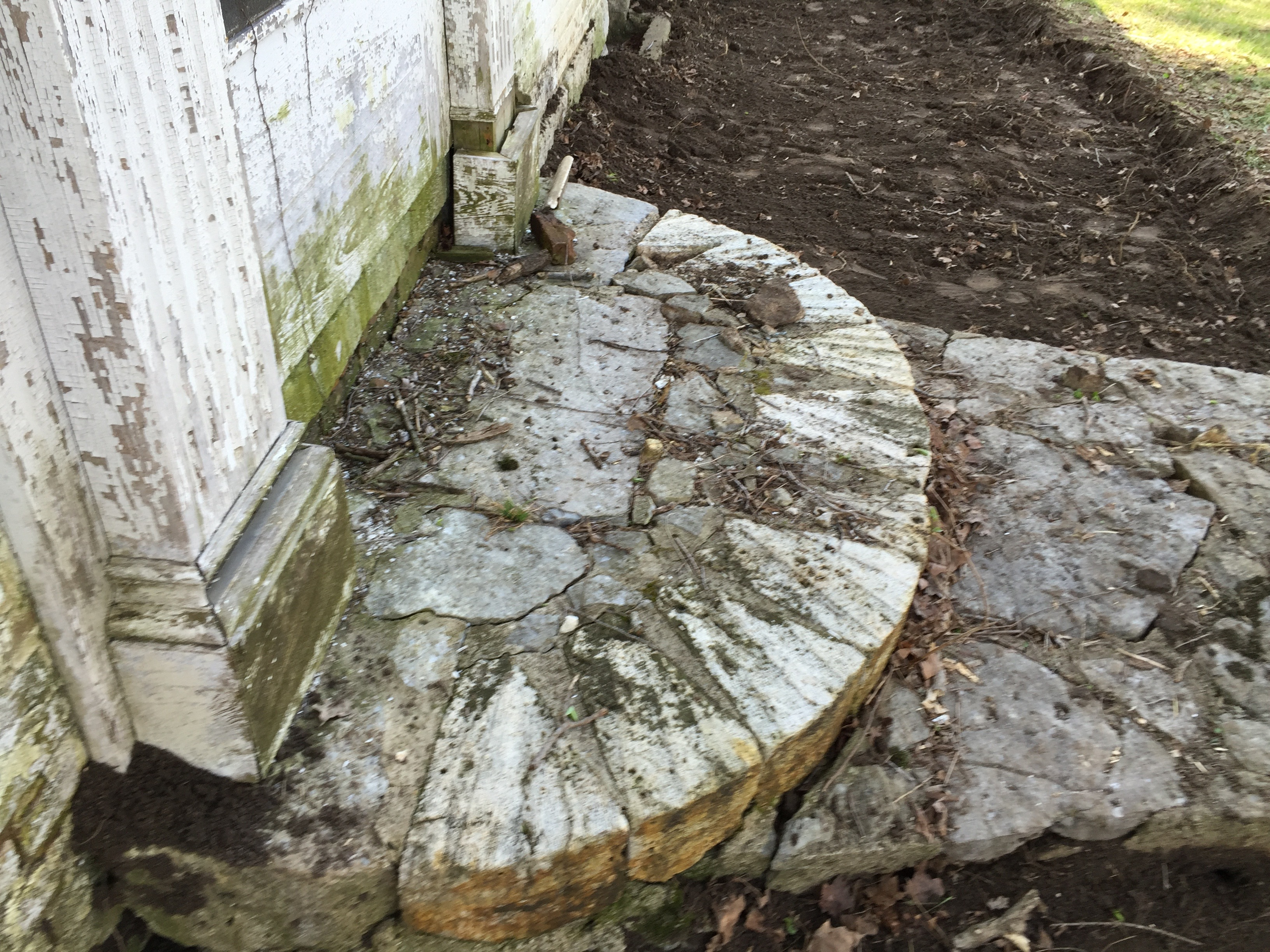 Entry modifications, including reclaimed millstone, attributable to David M. Magie after his 1863 acquisition of the property